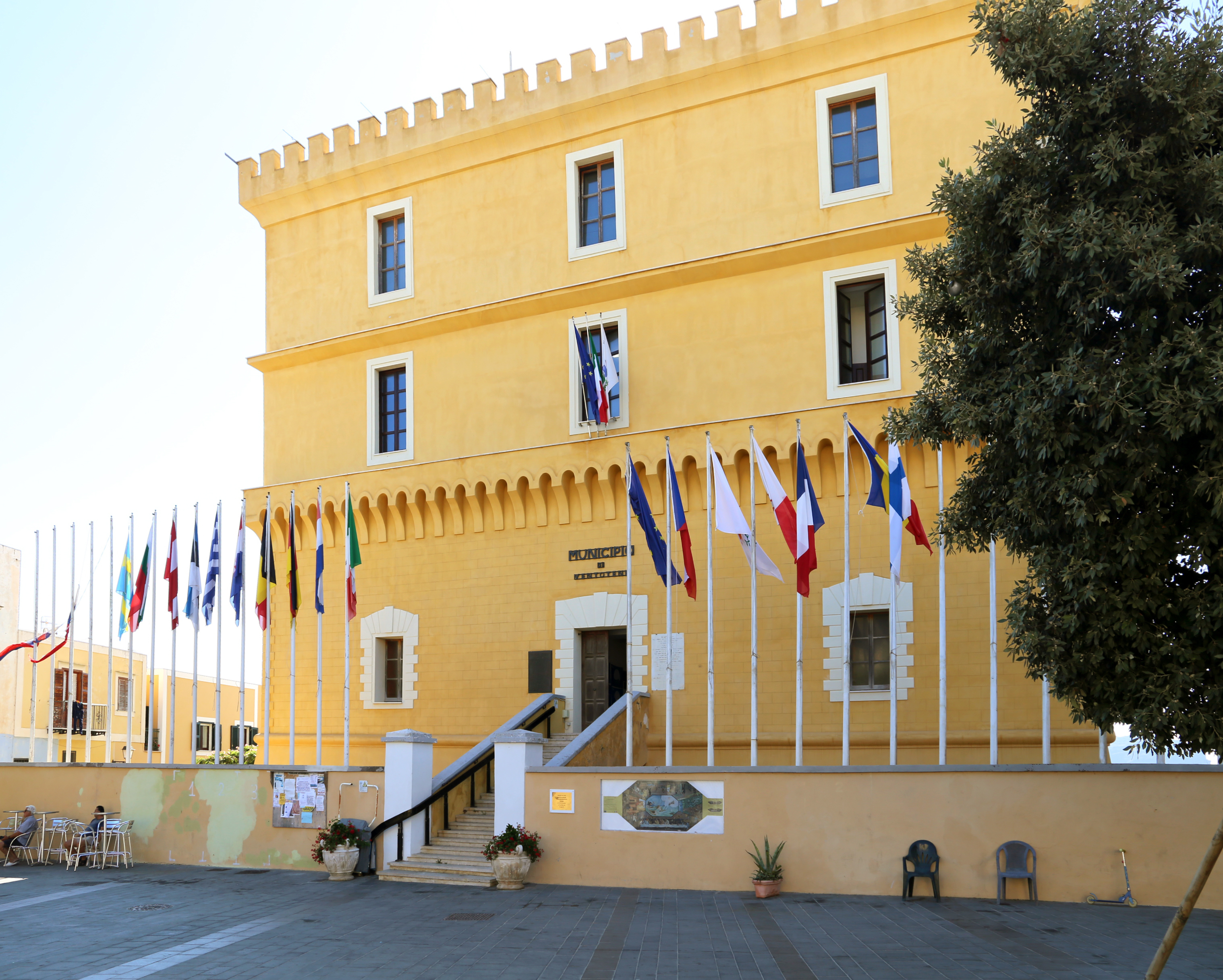 Ventotene Castle